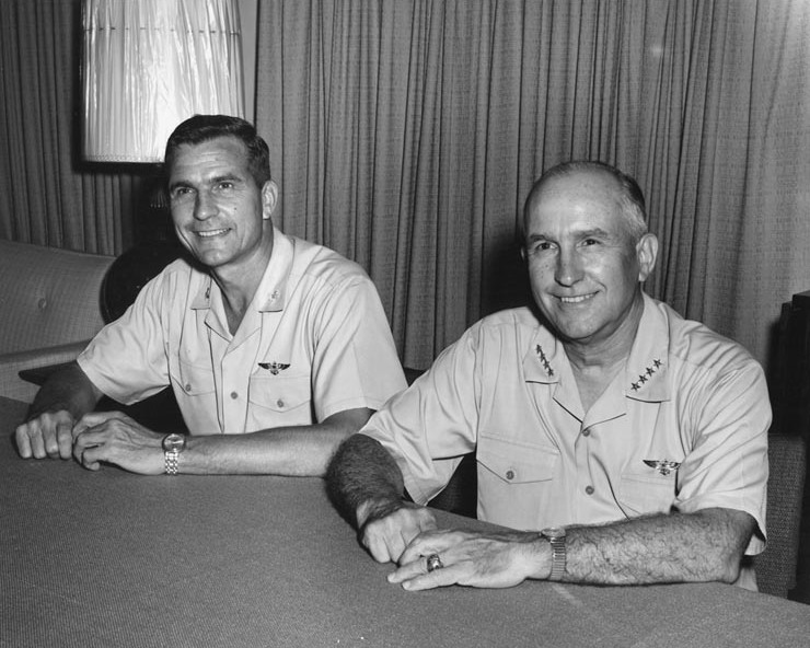 With his younger brother, Captain Joe P. Moorer, in their first meeting in over a year, 30 June 1967. Their paths crossed aboard the Seventh Fleet aircraft carrier USS Bon Homme Richard (CVA-31), operating in the Tonkin Gulf. Admiral Moorer, who is 55, arrived aboard the "Bonnie Dick" as a scheduled stop on his tour of military units in the Far East. Captain Moorer, 44, is the staff operations officer for Vice Admiral John J. Hyland, Seventh Fleet Commander, who arrived aboard the aircraft carrier for a Vietnam operations briefing. Both Adm. Moorer and VAdm. Hyland met with Rear Admiral Vincent P. de Poix, Commander Carrier Division Seven, whose flagship is the Bon Homme Richard. Photographer: PH3 D.T. McCaslan. The associated press release was prepared by JOC R.W. Grover. Official U.S. Navy Photograph, from the collections of the Naval Historical Center.